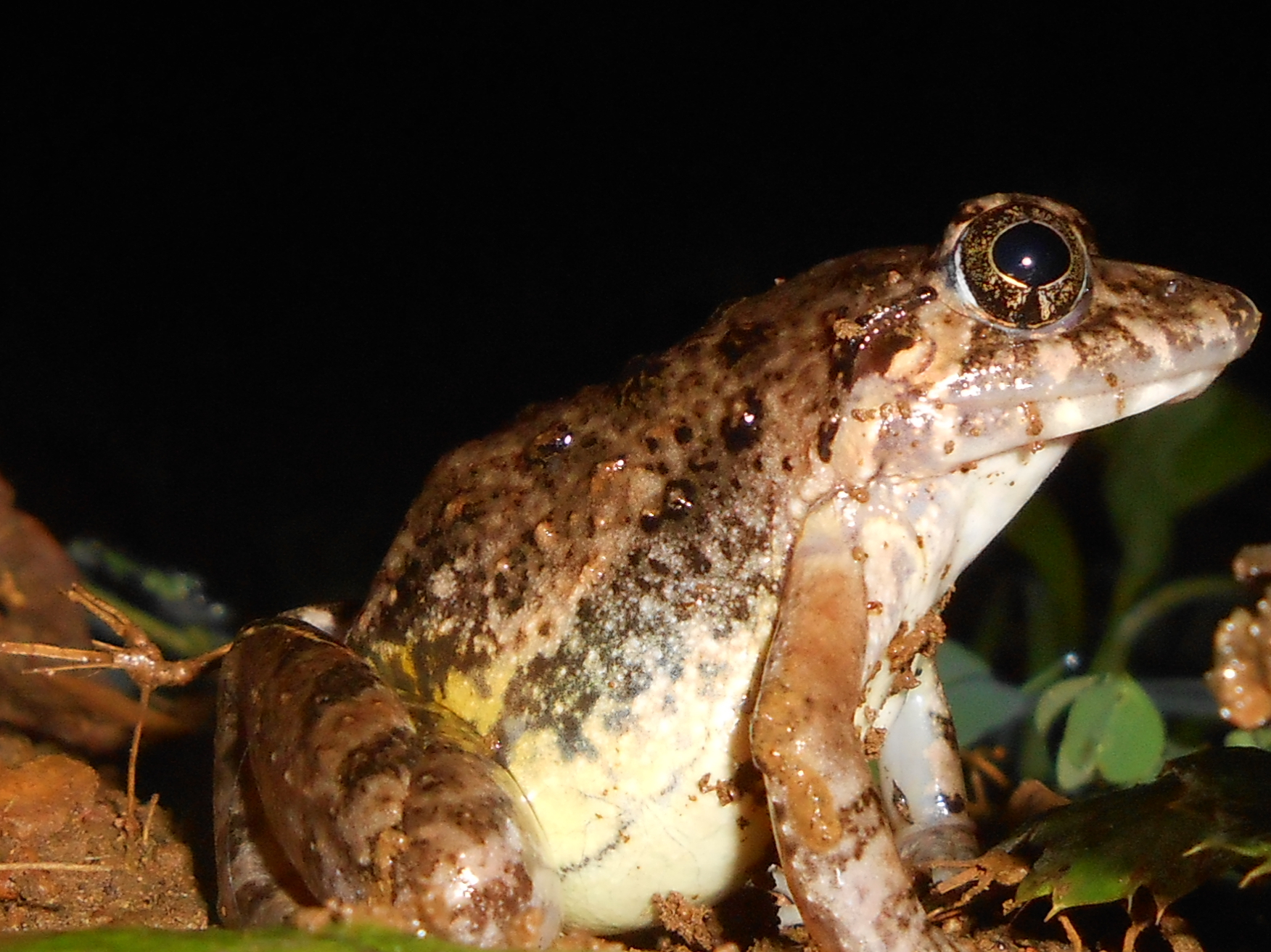 A male of the species.